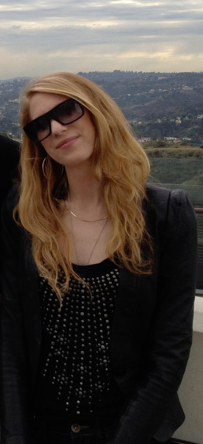 Laurence Gendron, Producer